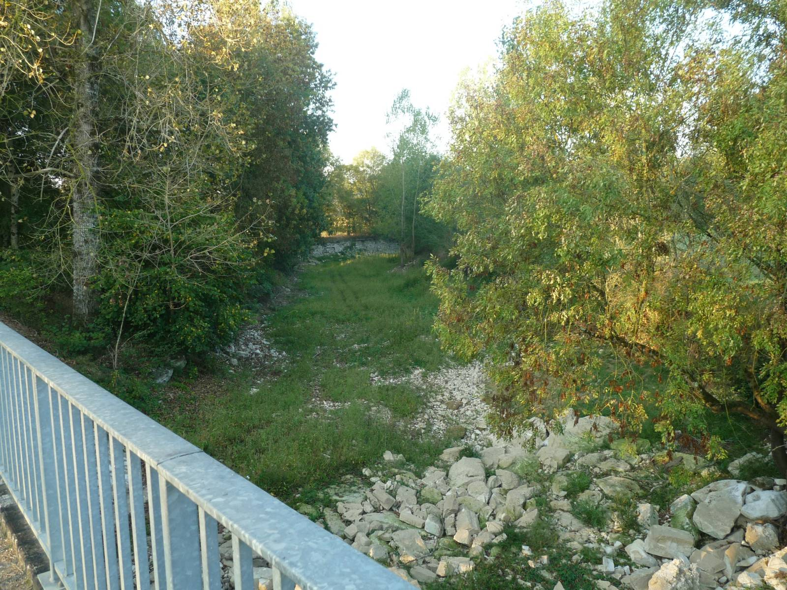 Tardoire river near La Rochette, Charente, SW France